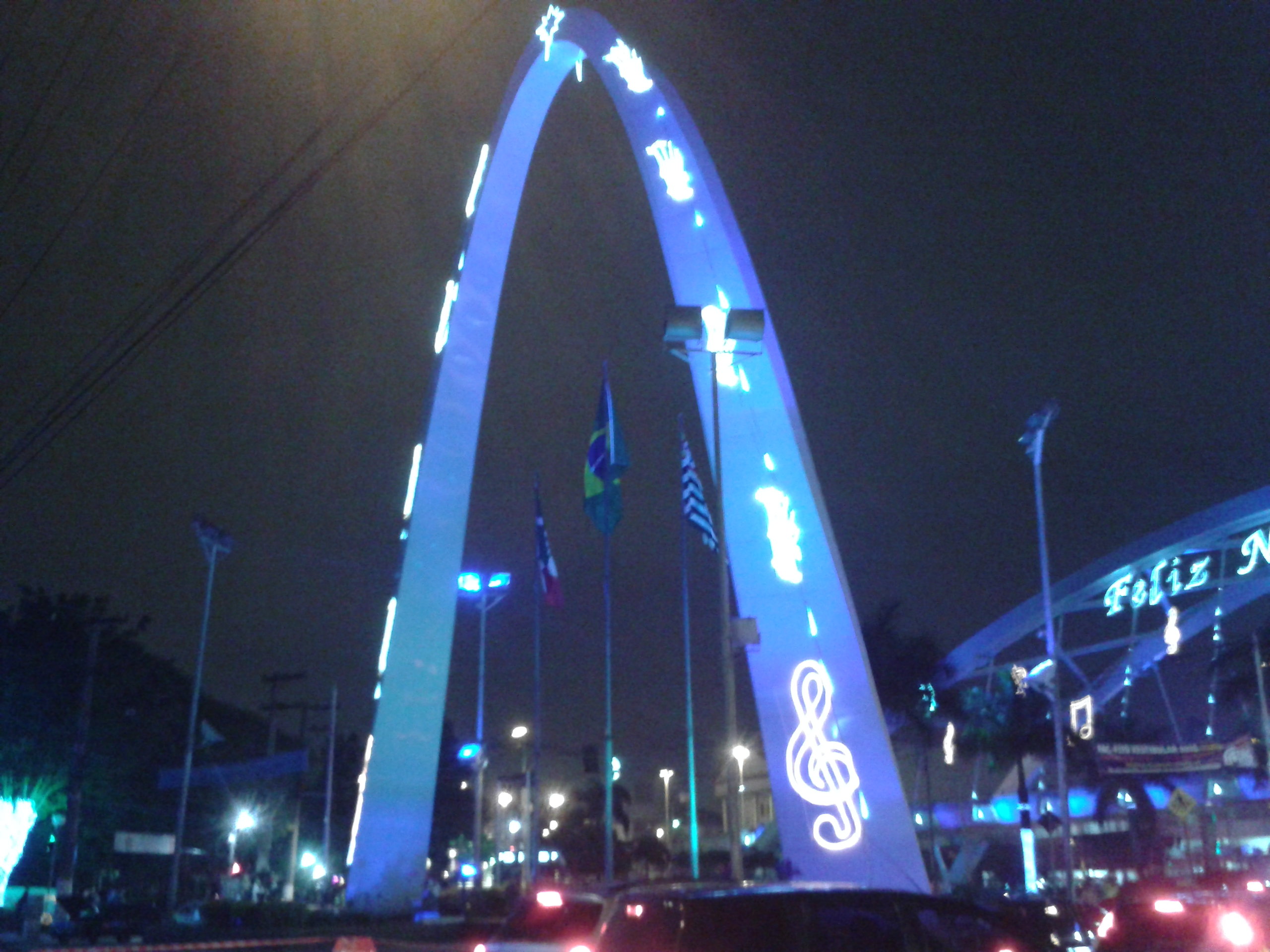 Picture of the "Arco de Osasco" taken on december 6th, 2014.